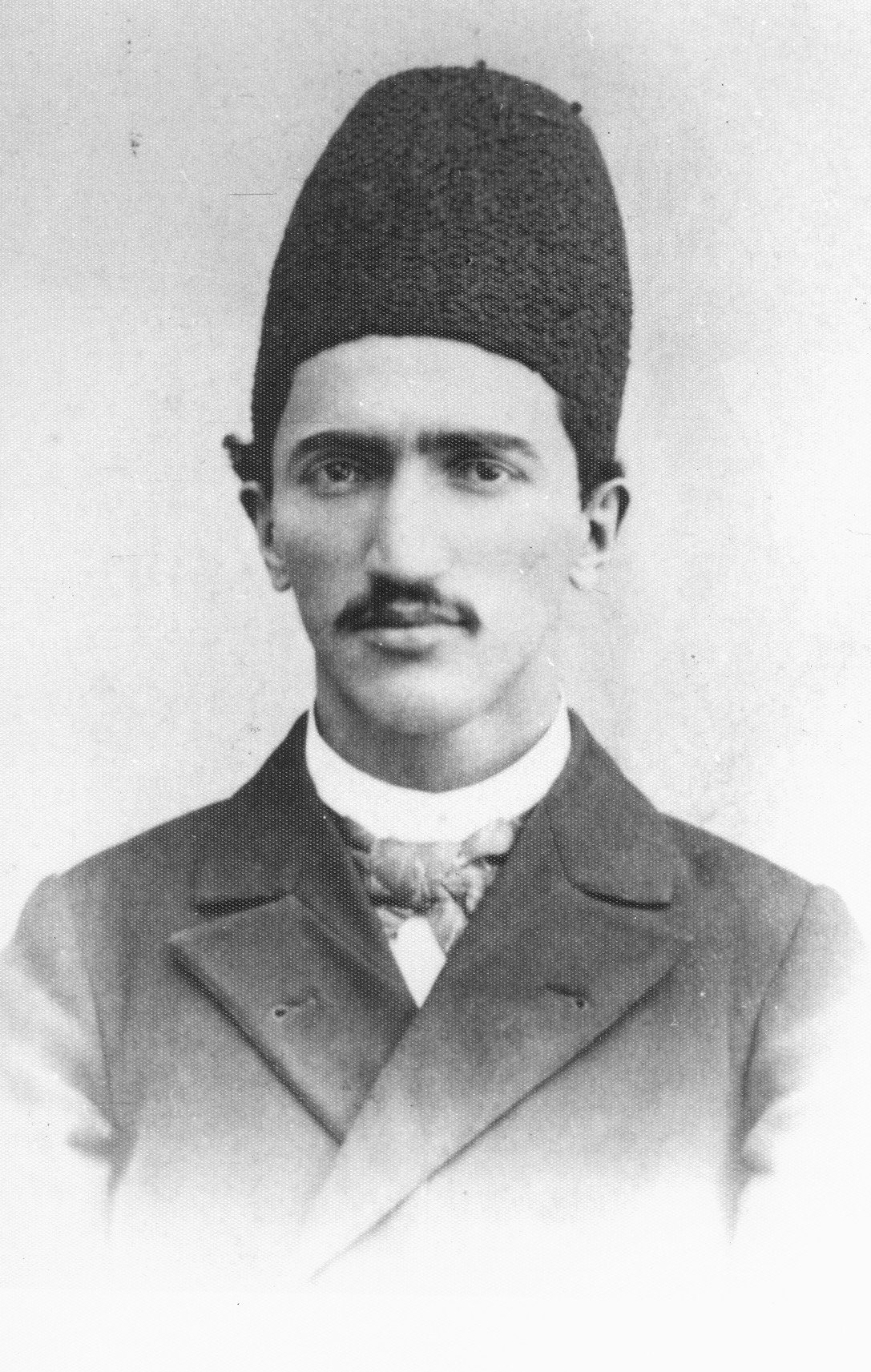 Portrait of Yussef Etessami